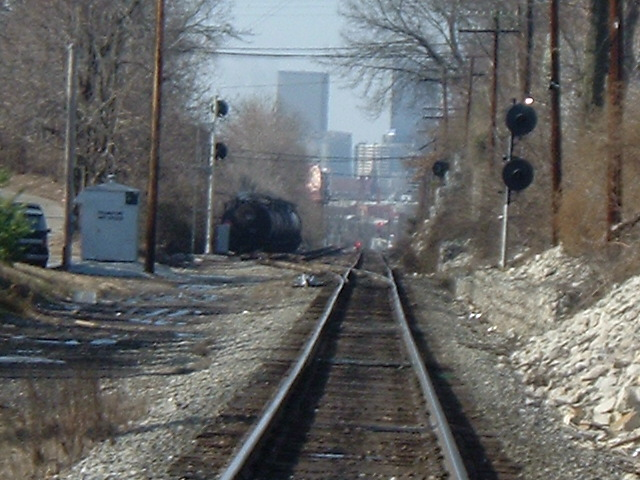 View of Downtown from Clifton LOUKY